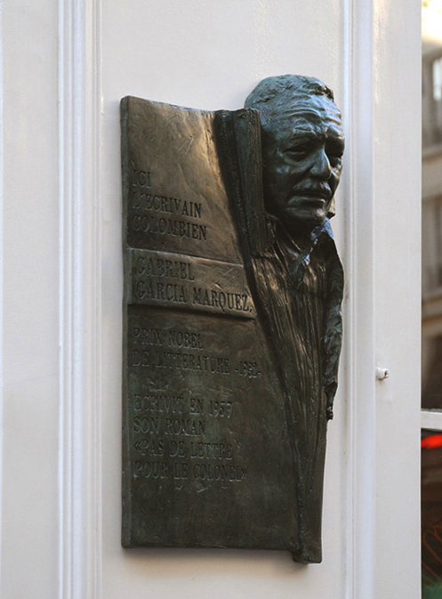 Commemorative plaque for Gabriel García Márquez - Sculptor : Milthon - Entrance of the Hôtel des 3 Collèges - Paris